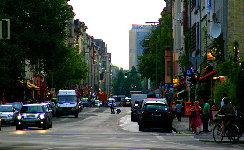 View into Oranienstrasse (from Skalitzer Strasse) in Berlin-Kreuzberg